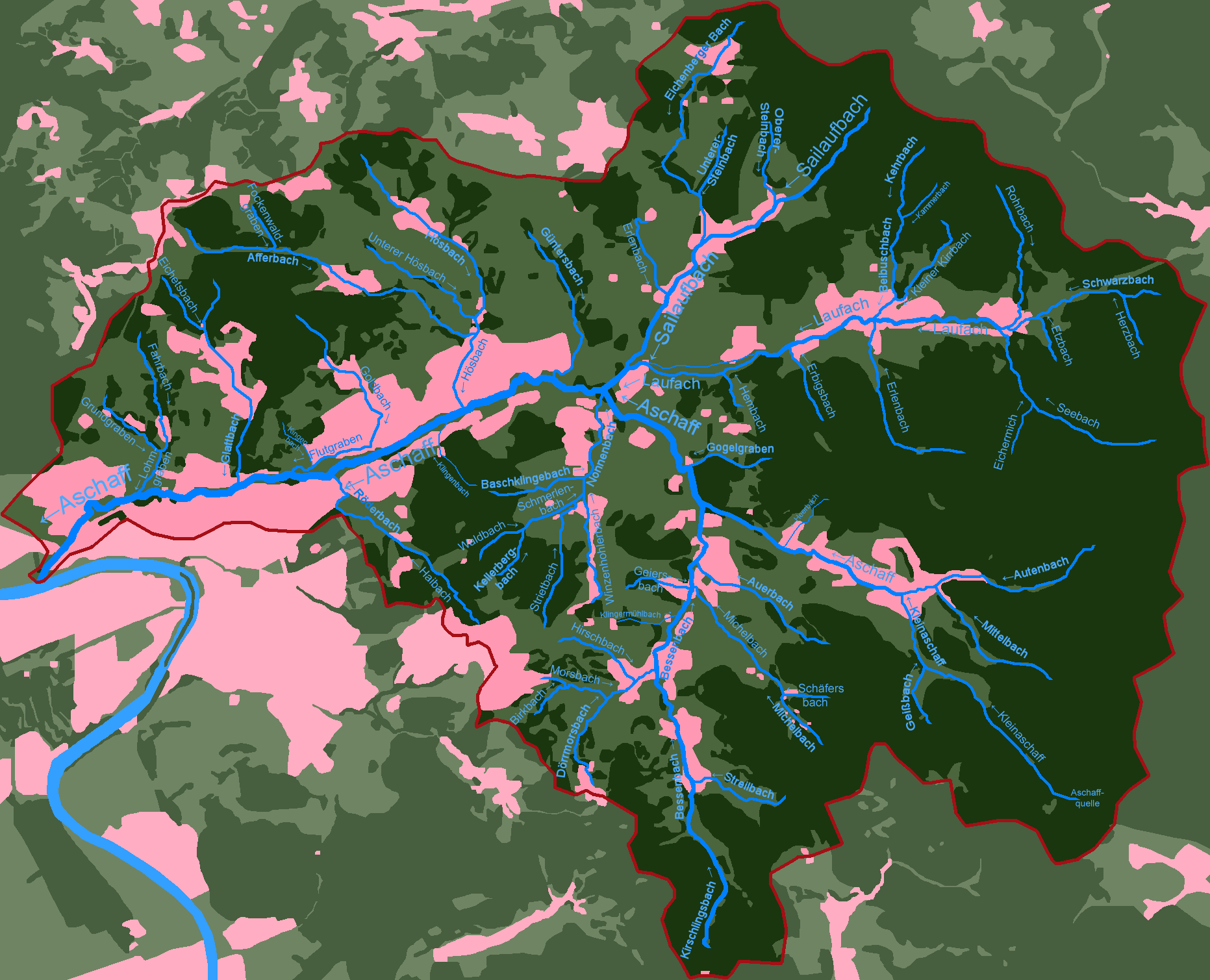 Streams in the drainage system of the Aschaff: the file shows stream in the drainage system of Aschaff which are listed in the "List of streams in the drainage system of Aschaff" in the German Wikipedia. For questions and suggestions please contact the author. Grassland, Meadow Settlement area Drainage basin Forest Body of water